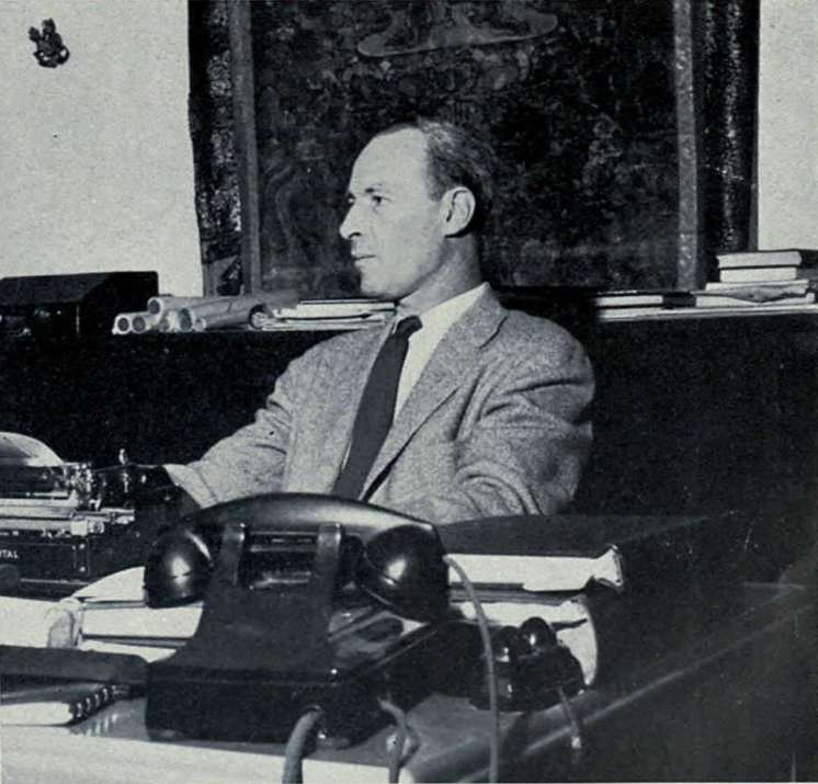 Photograph of Max Loehr